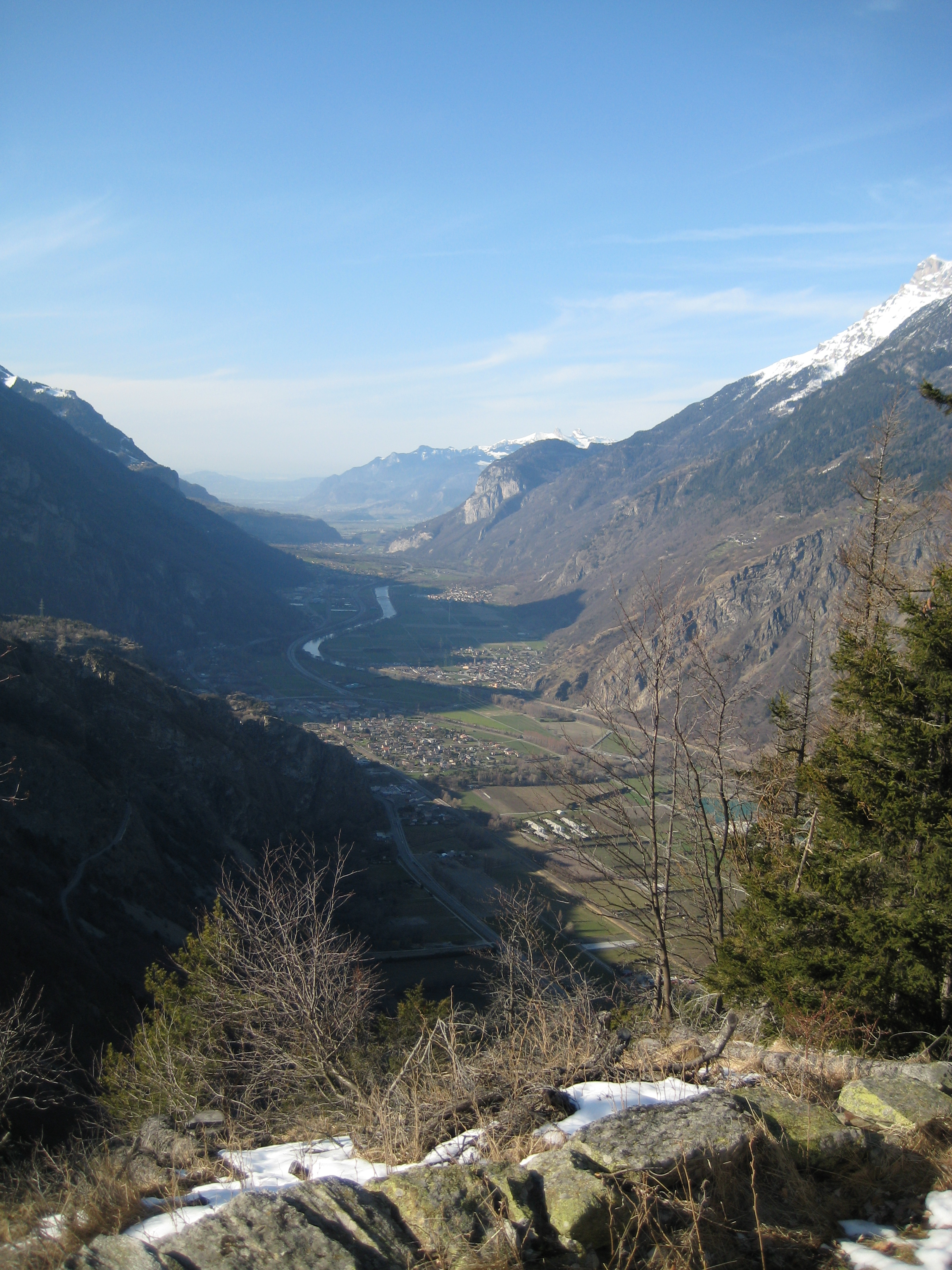 View of Chablais Valaisan, from Vernayaz to St-Maurice